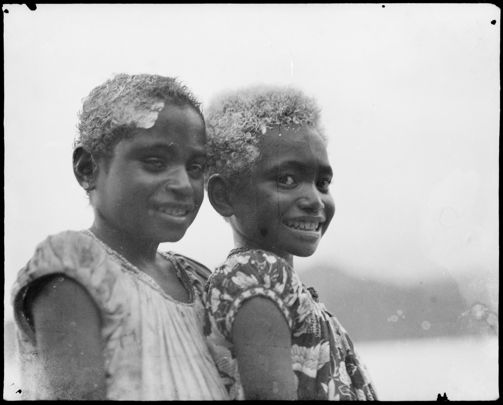 Chinnery, Sarah Johnston, 1887-1970 Part of the collection: Sarah Chinnery photographic collection of New Guinea, England and Australia.; Condition: Spots and stains on negative. Loss of image. Pinholes in negative.; Two smiling girls, with limed hair. -- Accompanying notes from family.; Also available in an electronic version via the internet at: .au/nla.pic-vn4555229. Persistent URL .au/nla.pic-vn4555229